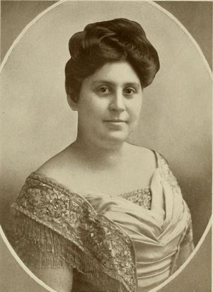 Sadie Kuttner Epstein, Rosch Photo, Johnson, Anne (André) "Mrs. Charles P. Johnson", 1871-. Notable women of St. Louis, 1914; (Kindle Location 4402). [St. Louis, Woodward.]